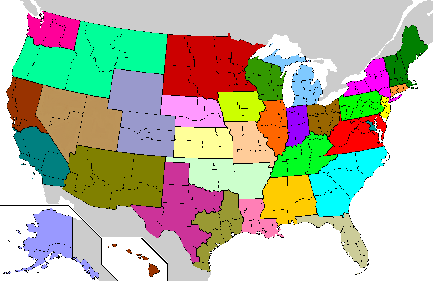 Geographical Latin rite Roman Catholic ecclesiastical provinces of the United States. Each of the 33 ecclesiastical provinces is a separate color. Eastern rite eparchies and dioceses are not shown.